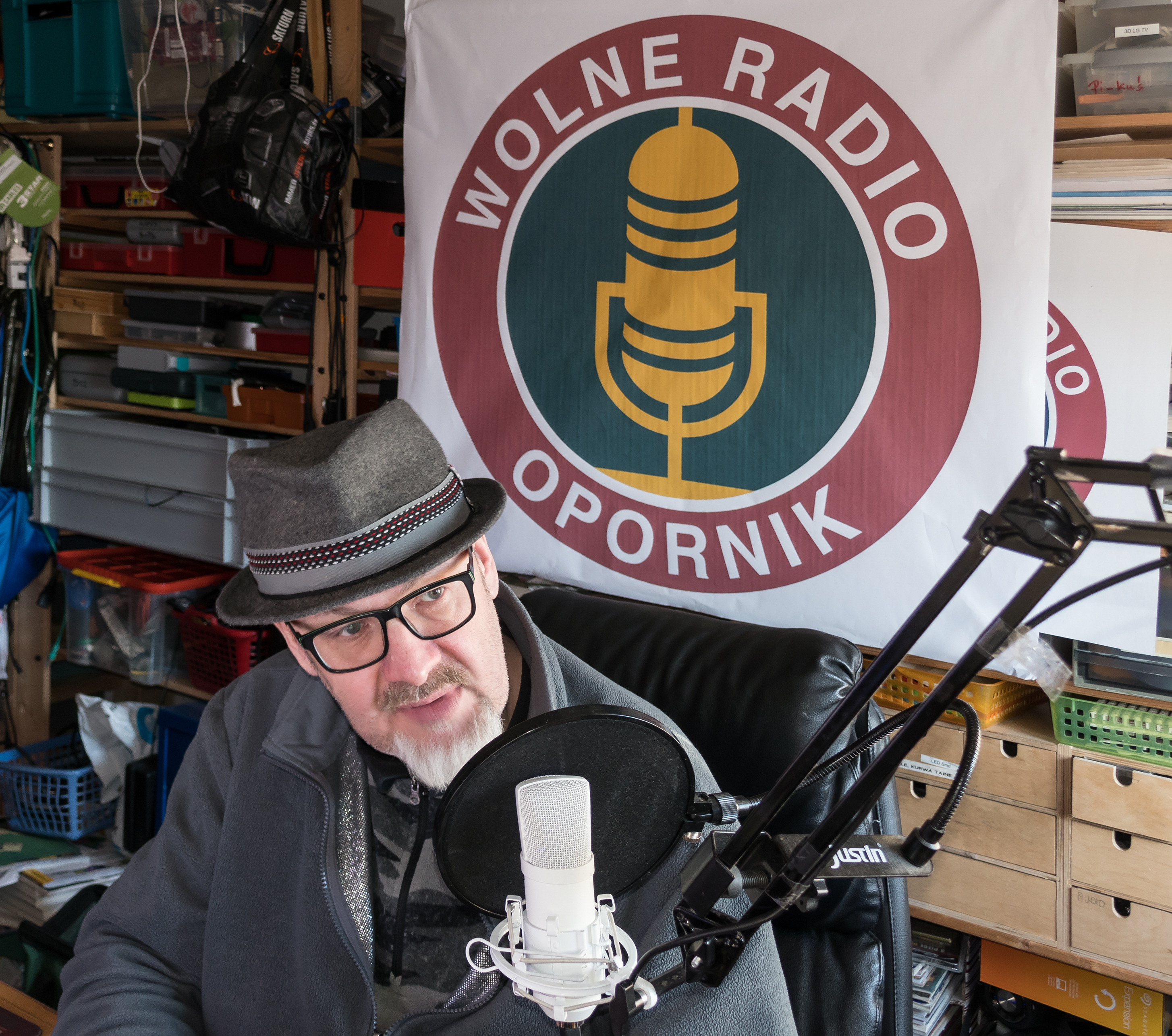 Andrzej Niemczuk, Wolne Radio Opornik presenter